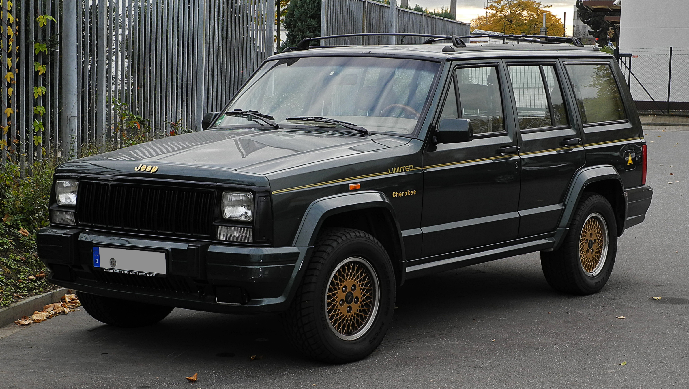 Jeep Cherokee 4.0 Litre Limited (XJ, Facelift)